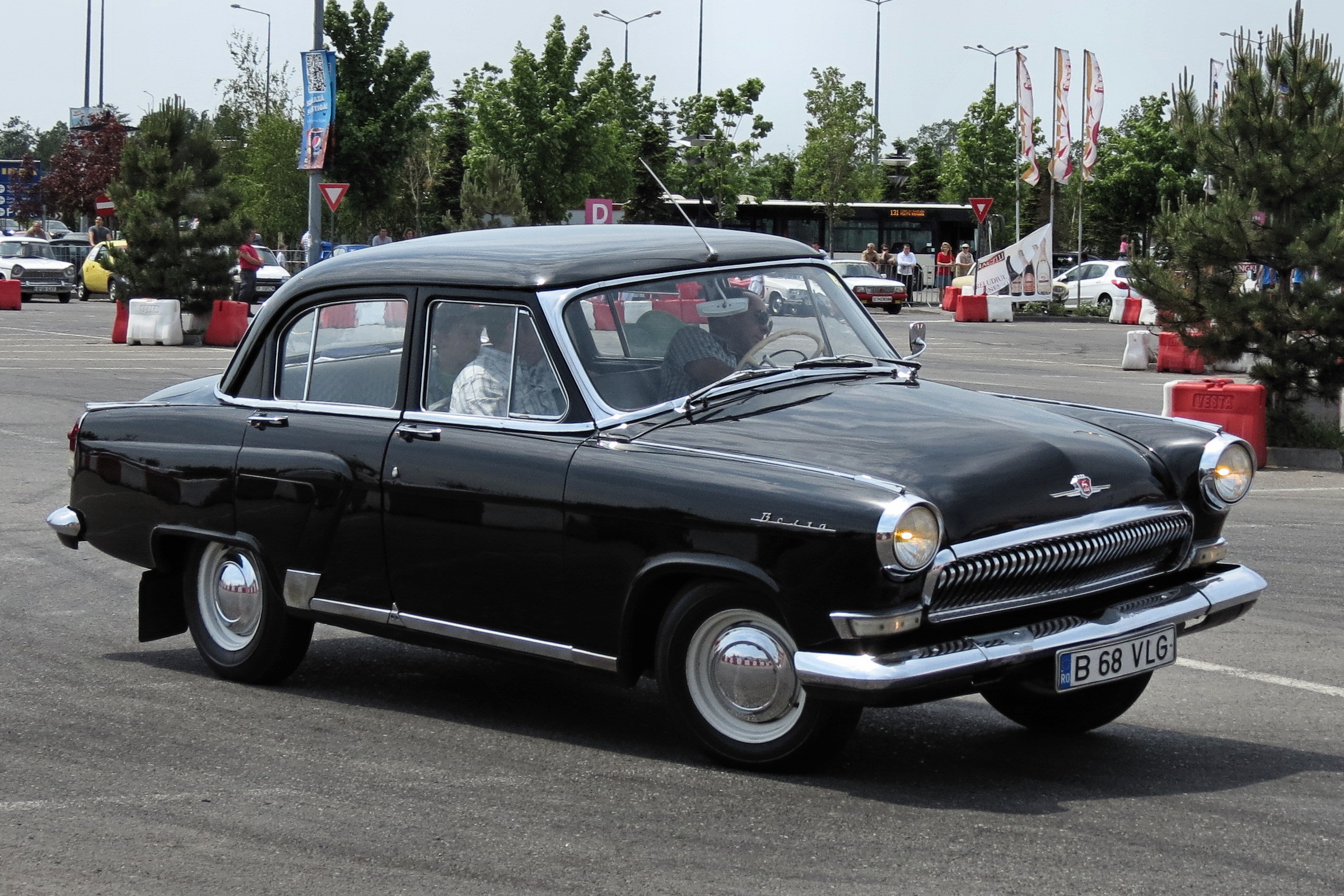 A sprightly GAZ-21 Volga, bearing the perfume of a bygone age. (Period car show at the Băneasa Shopping City in Bucharest.)